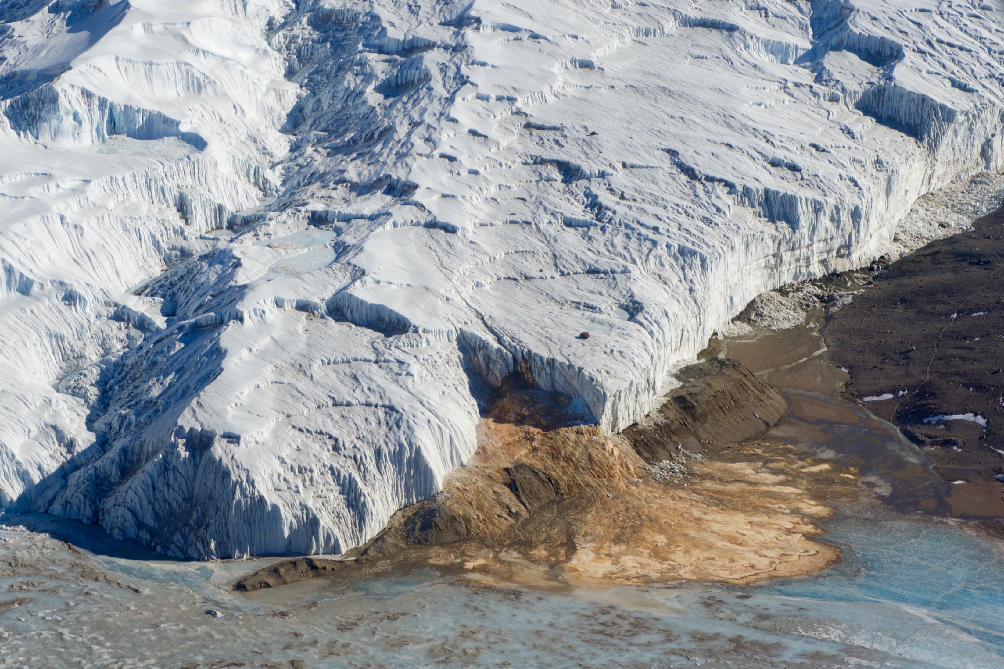 Blood Falls in the McMurdo Dry Valleys in Antarctica, as seen on November 11, 2016, by U.S. Secretary of State John Kerry while he conducted a helicopter tour of U.S. research facilities around Ross Island and the Ross Sea, and visited the McMurdo Station in an effort to learn about the effects of climate change on the Continent. [State Department Photo/ Public Domain]